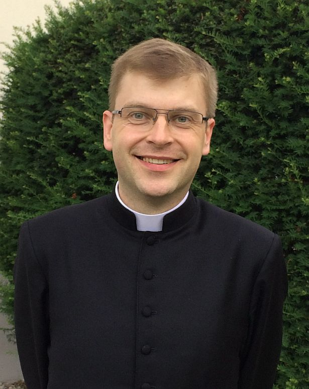 Rev Jacek Marian Powolaniuk 2015